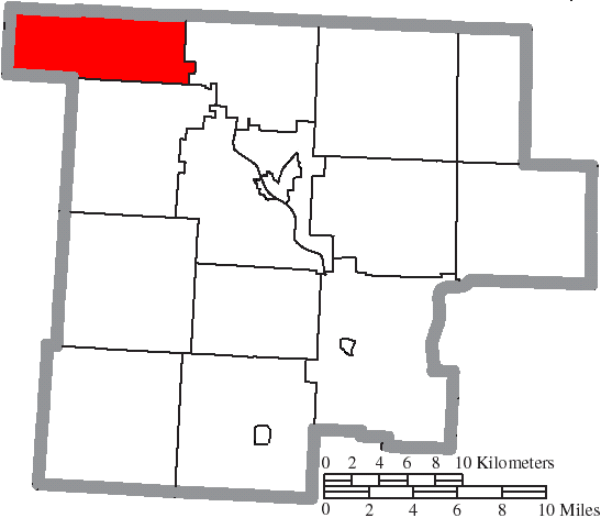 Map of the municipal and township boundaries of Morgan County, Ohio, United States, as of the 2000 census, with the location of York Township highlighted. Township borders are shown only in unincorporated areas in order to differentiate incorporated and unincorporated areas more clearly.